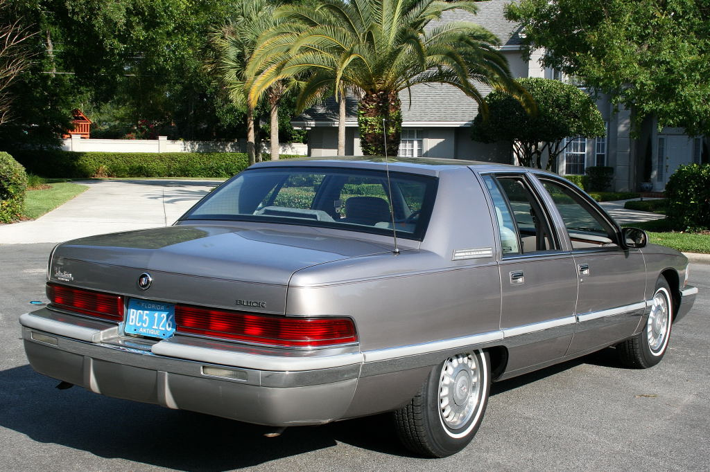 This is a picture of a vehicle (name of it is on the file name).